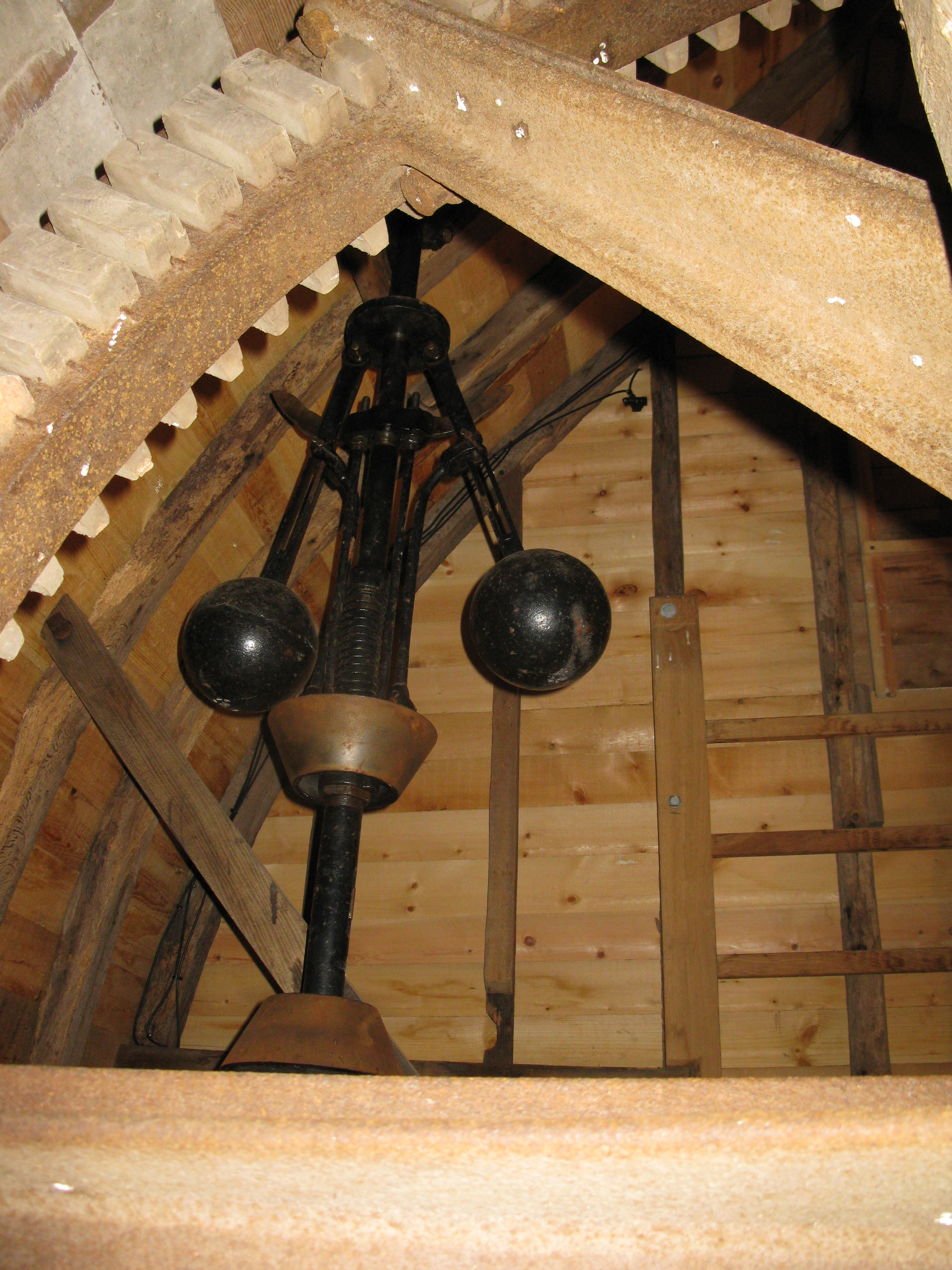 Hammond's Sweep Governor. The partially reconstructed sweep governor in Windmill Hill Mill, Herstmonceux.